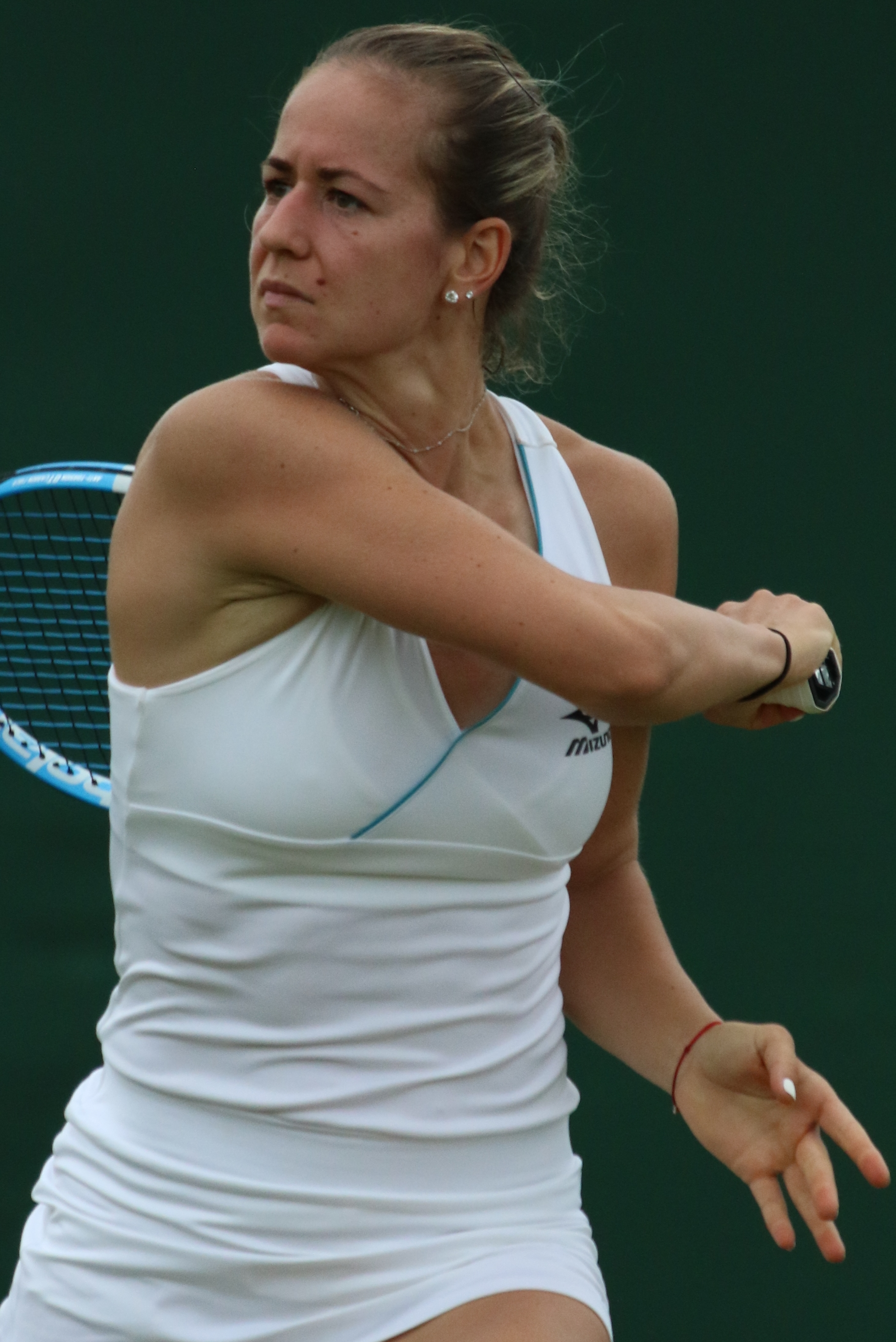 2019 Wimbledon Qualifying Tournament.